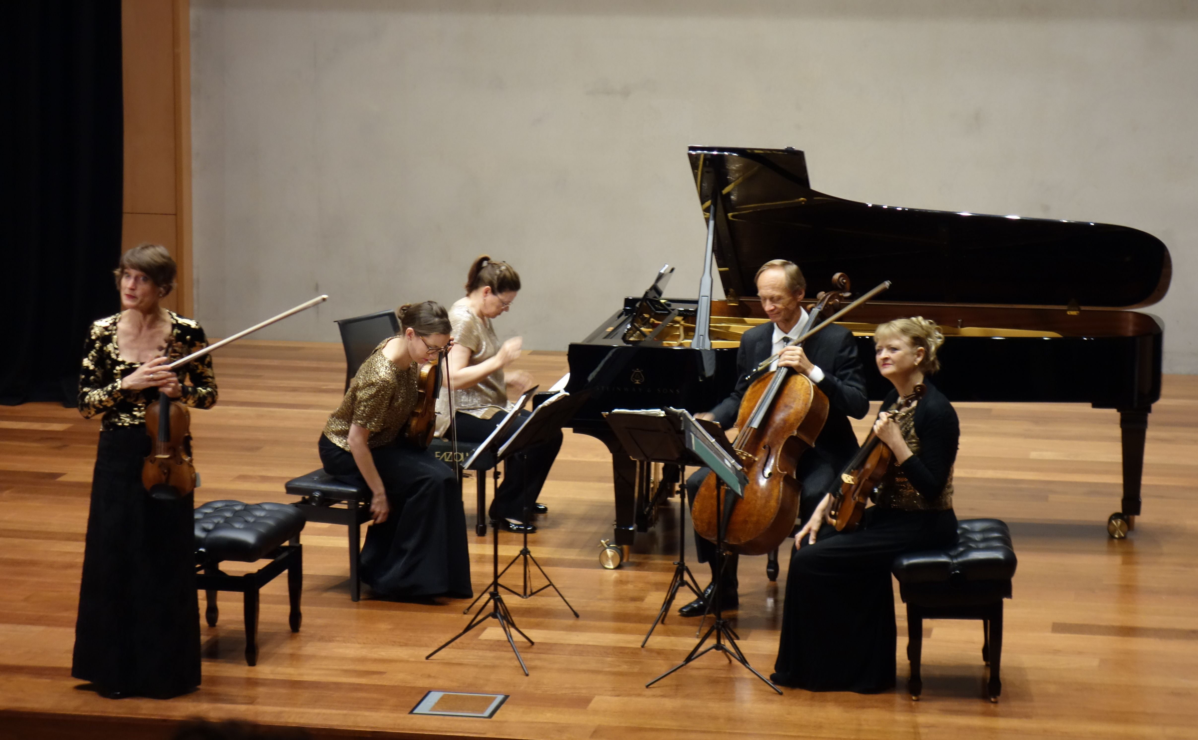 Kathryn Stott and the New Zealand String Quartett performing at The Piano in Christchurch.